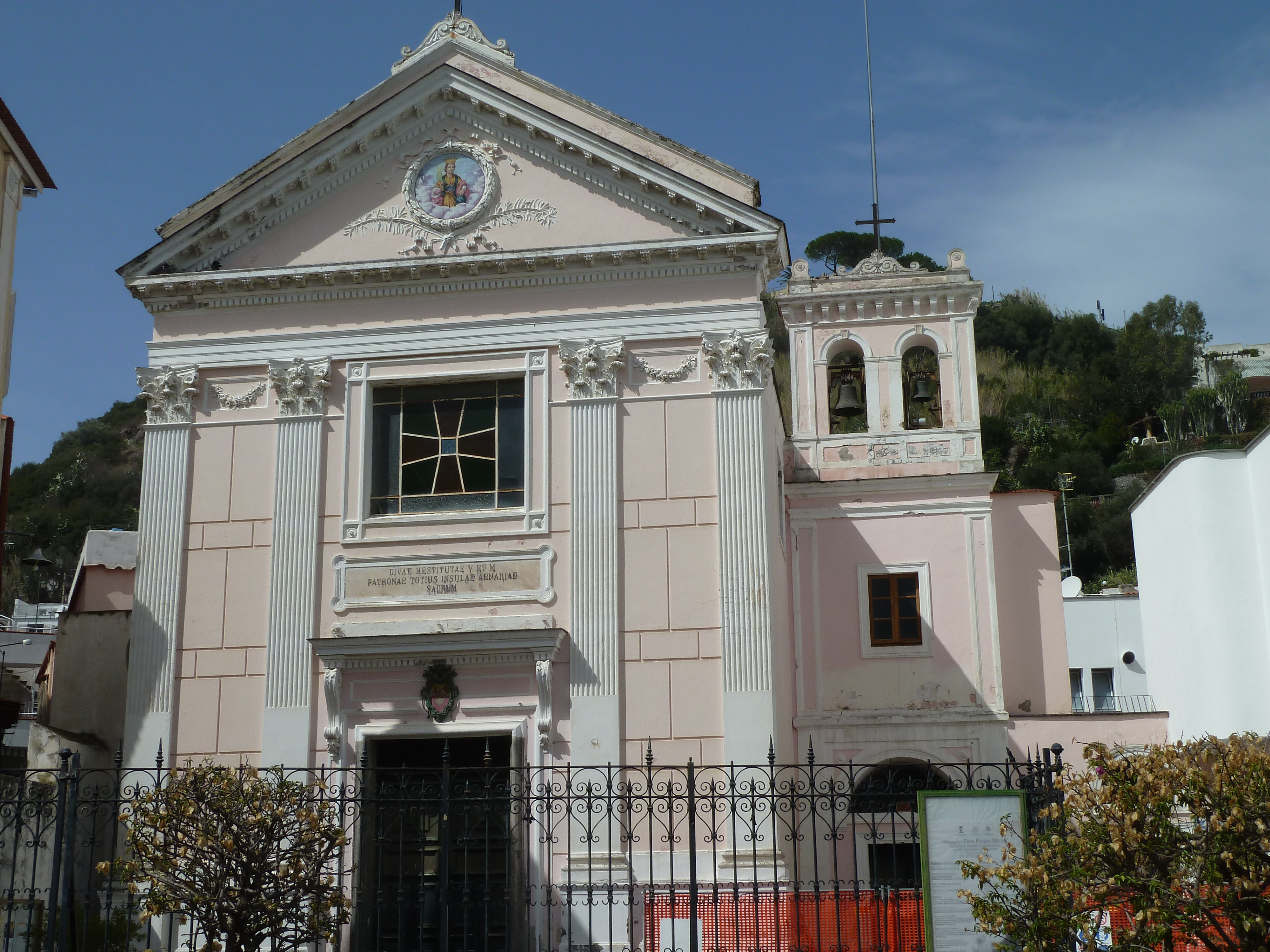 sta restitua